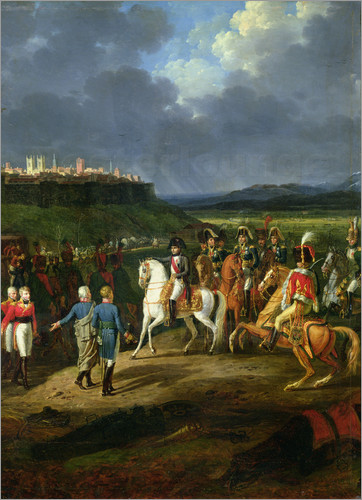 Napoleon at Astorga in 1809 (Peninsula war)